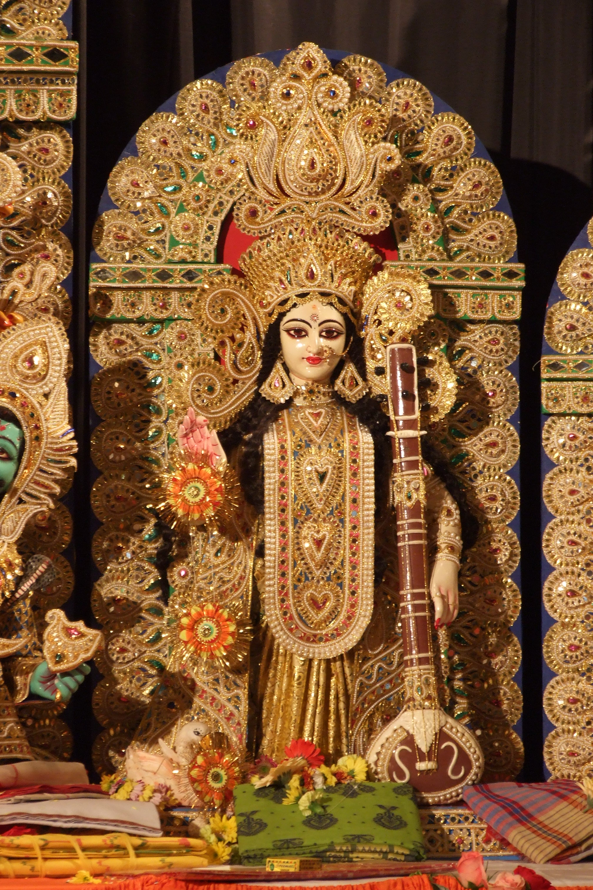 Durga Puja in Köln (Cologne), Germany. Murti of Saraswati.